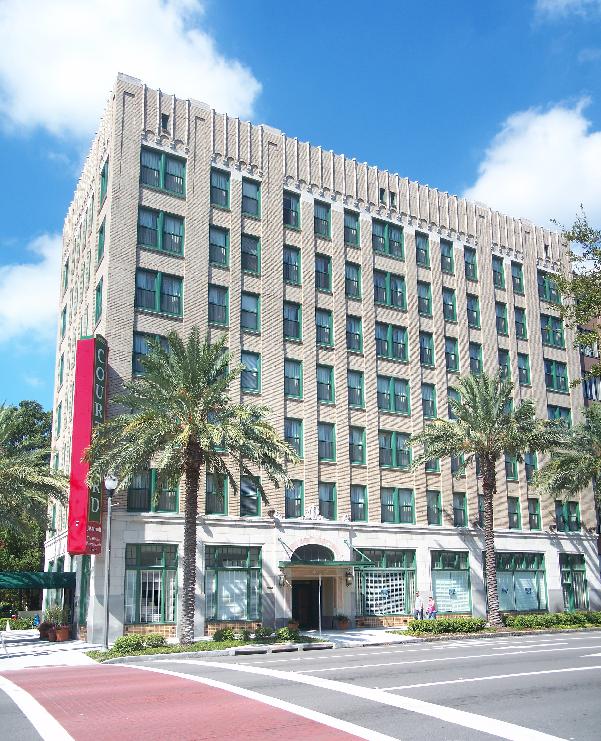 St. Petersburg, Florida: The Courtyard Marriott, formerly the Pennsylvania Hotel. It is a contributing structure to the Downtown St. Petersburg Historic District